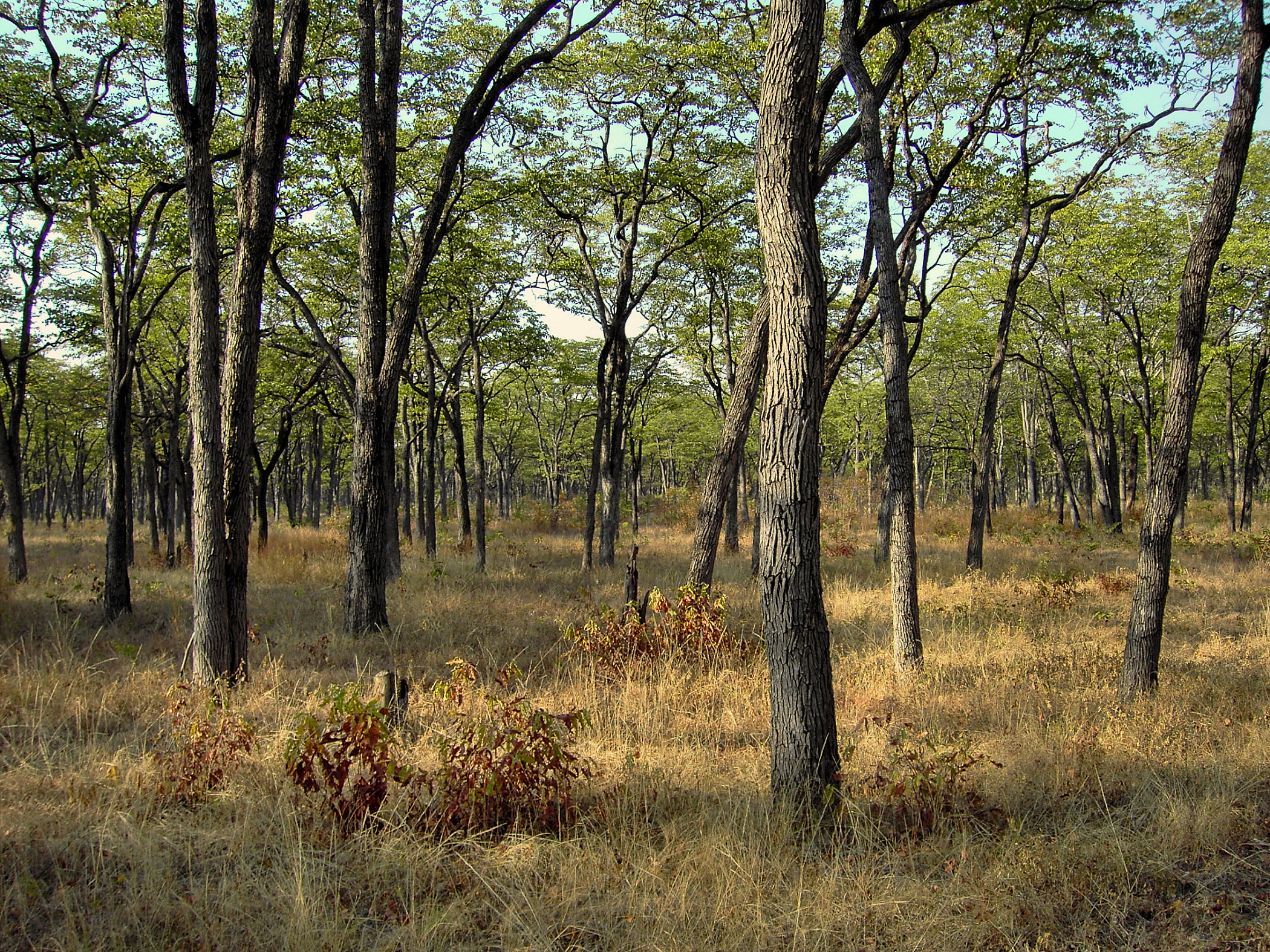 Cathedral Mopane forest in the Game Management Area adjoining South Luangwa National Park.